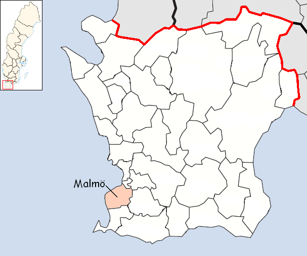 Malmö Municipality in Scania, Sweden Designed by me. Mere outlines are a PD source from